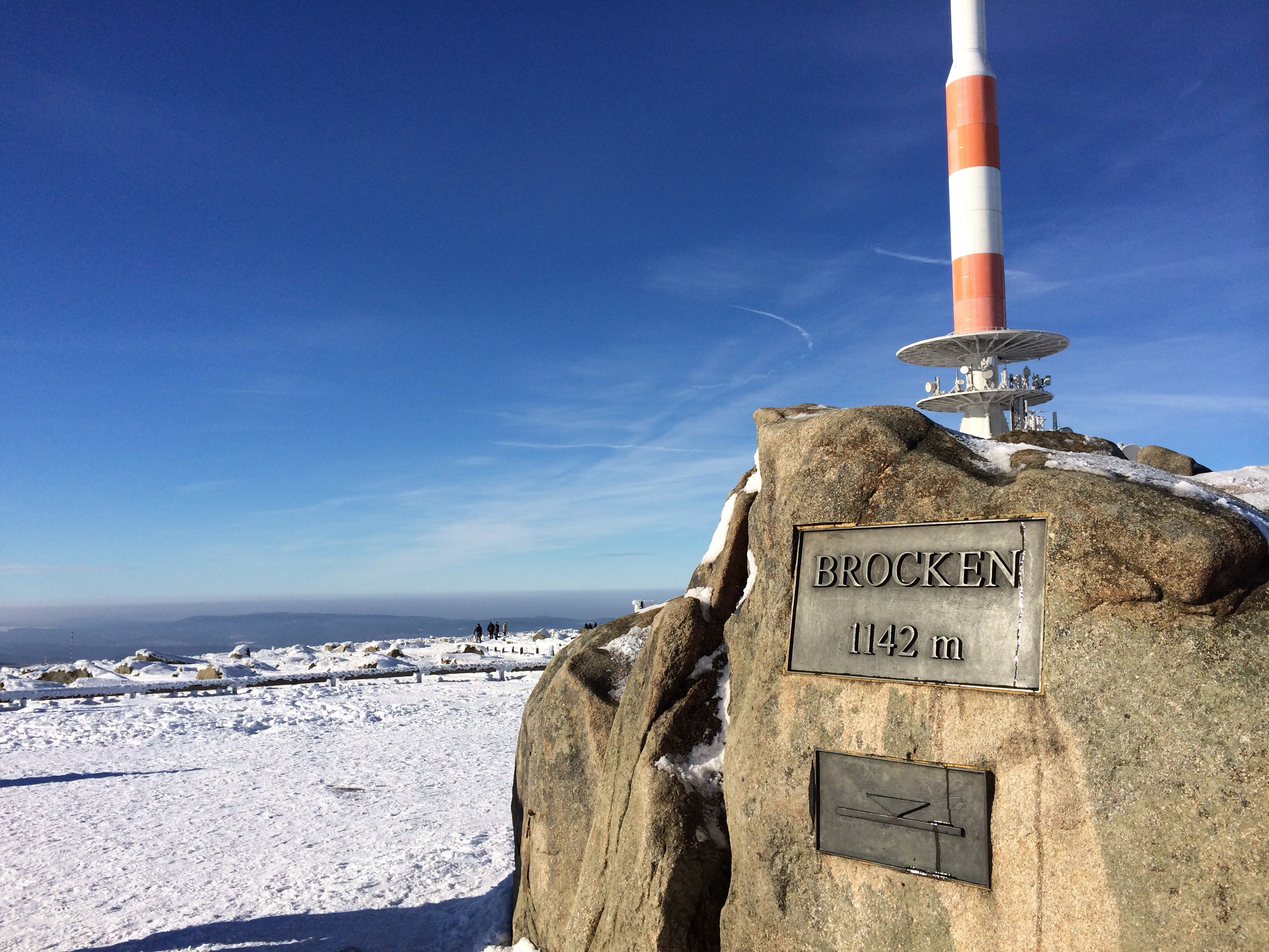 Brocken (30.01.2014)